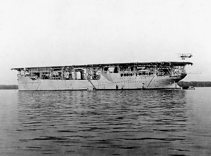 A U.S. Navy Aeromarine 39B airplane approaching the flight deck of the aircraft carrier USS Langley (CV-1) during landing practice, circa 1922.